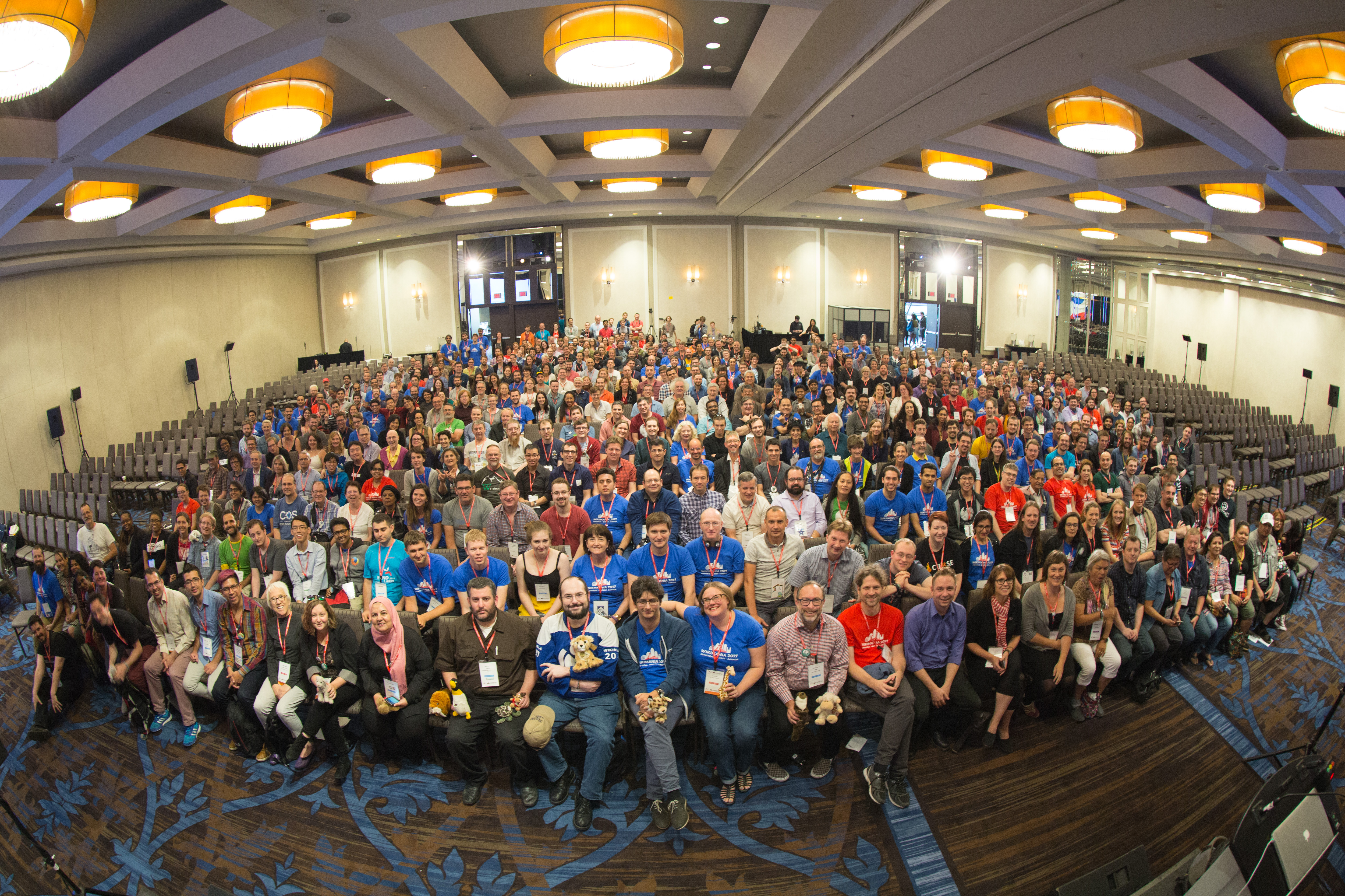 Wikimania 2017 Closing Ceremony Group Photo-1